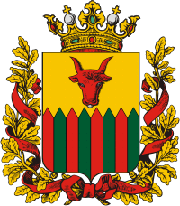 Zabaikalye oblast (Russian empire), coat of arms